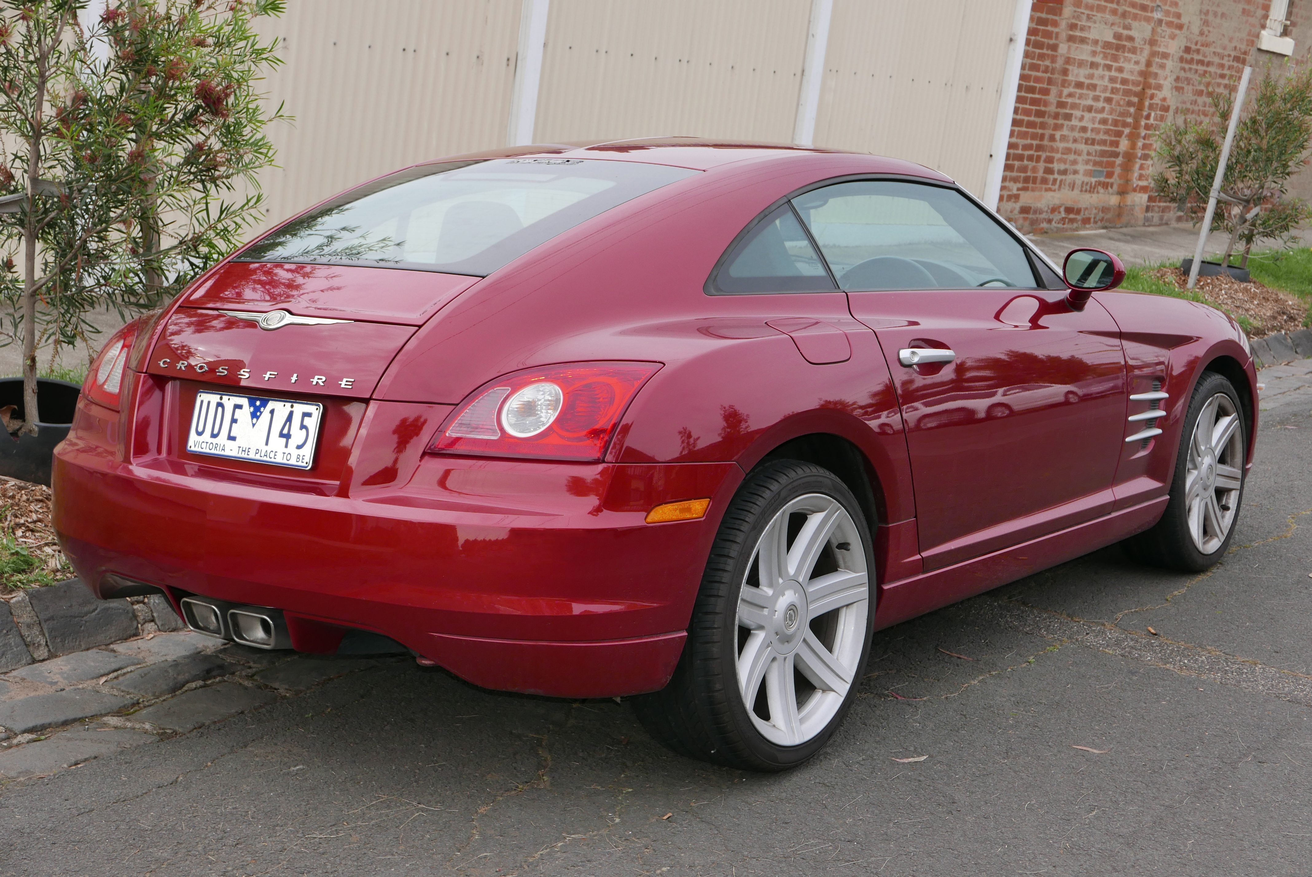 2006 Chrysler Crossfire (ZH MY05) coupe. Photographed in Ascot Vale, Victoria, Australia. Vehicle registration enquiry results Jurisdiction Victoria Registration UDE145 Chassis code 1C3APE9L74X022976 Engine code 4X022976 Compliance date 2006-04 Year of manufacture 2006